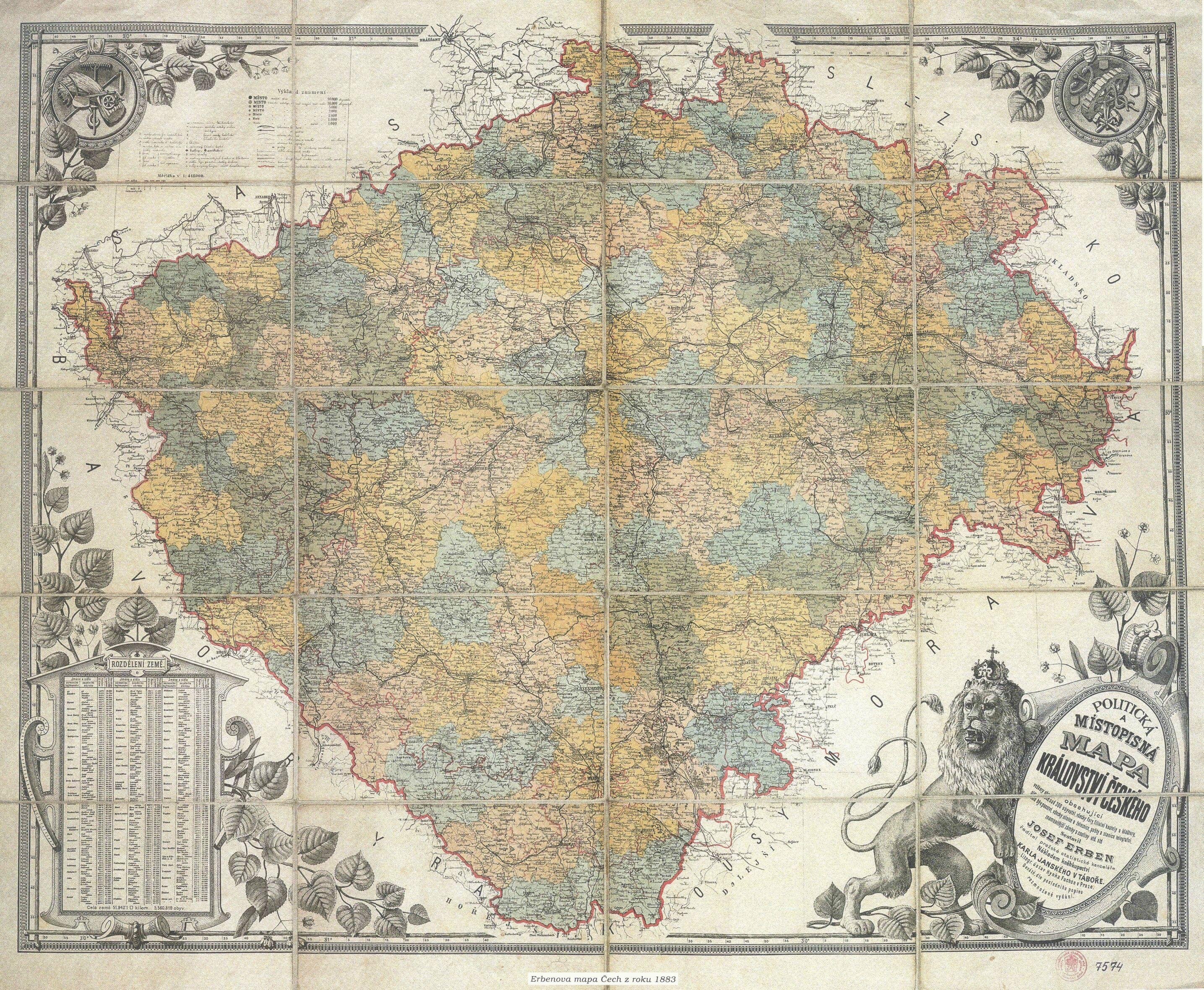 Erben's map of Bohemia, 1883